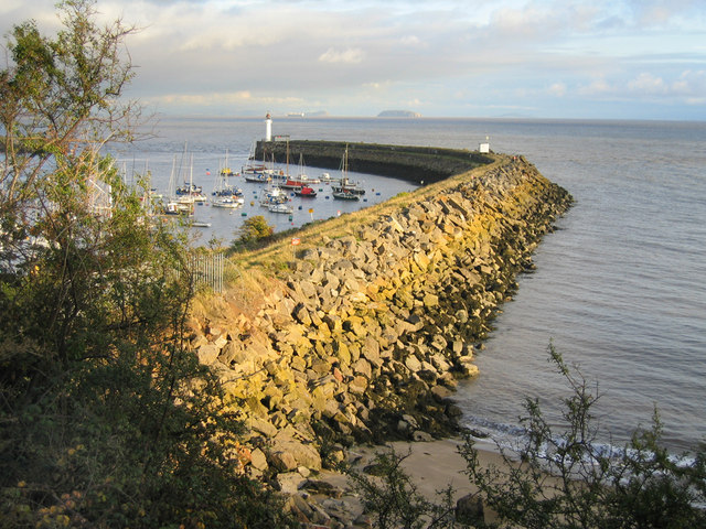 Barry Docks Entrance outer harbour wall This is the westerly breakwater of the Barry Docks entrance harbour. In the foreground you can just see part of 'Jacksons Bay' a small, sheltered, golden sandy beach which is popular with Barry Island residents. The photograph was taken from the access pathway which runs down to the beach from Redbrink Crescent.